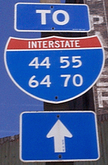 This is a picture I took in downtown St. Louis of an Interstate highway shield with 4 interstate highways on it (I-44, I-55, I-64, I-70).